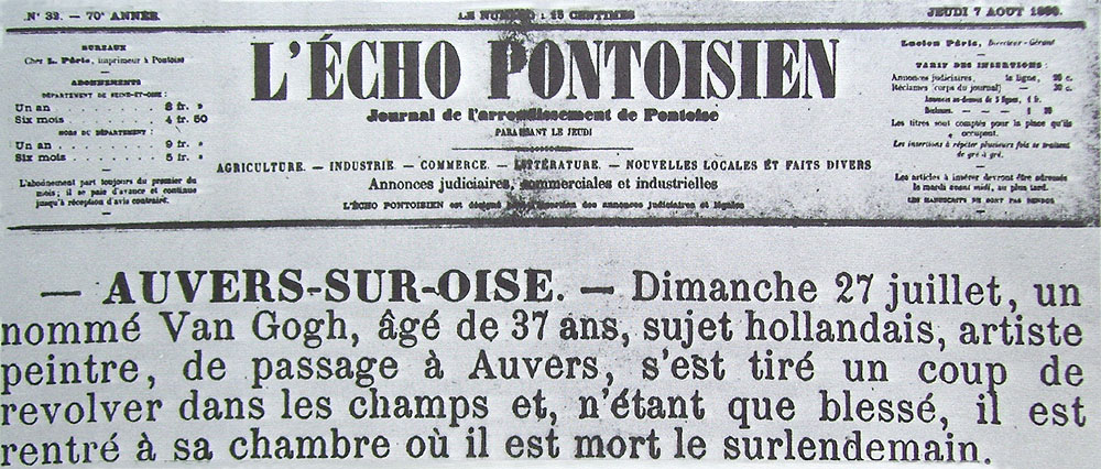 Newspaper clipping from L'Écho Pontoisien on the death of the artist Vincent van Gogh